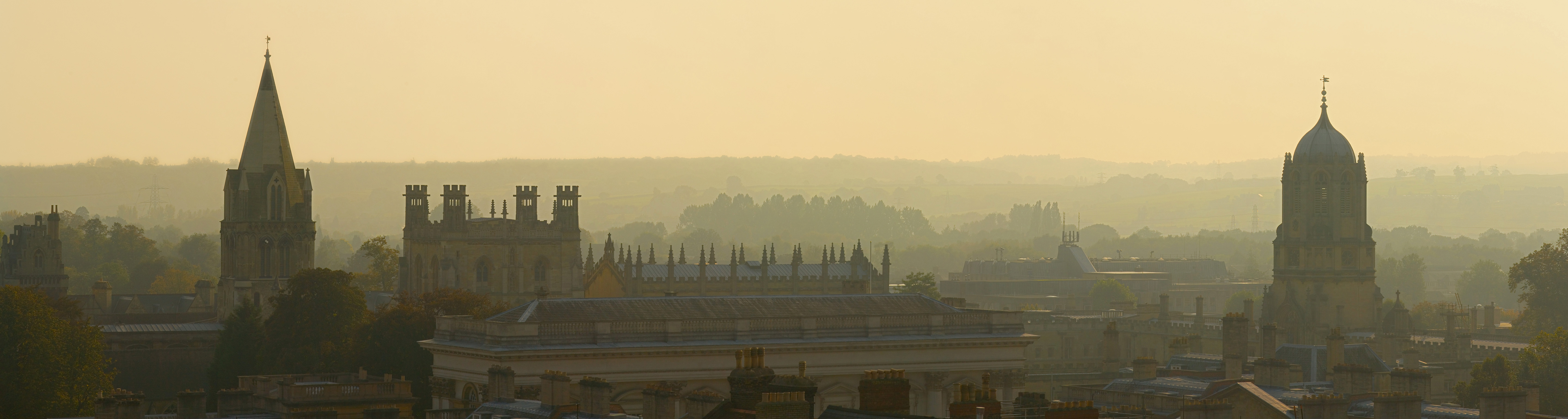 A panoramic view of the Oxford skyline facing south towards Christ Church Cathedral and Tom Tower of Christ Church (the spires on the left and right respectively) from The Church of St Mary the Virgin. Taken by myself with a Canon 5D and 70-200mm f/2.8L lens.